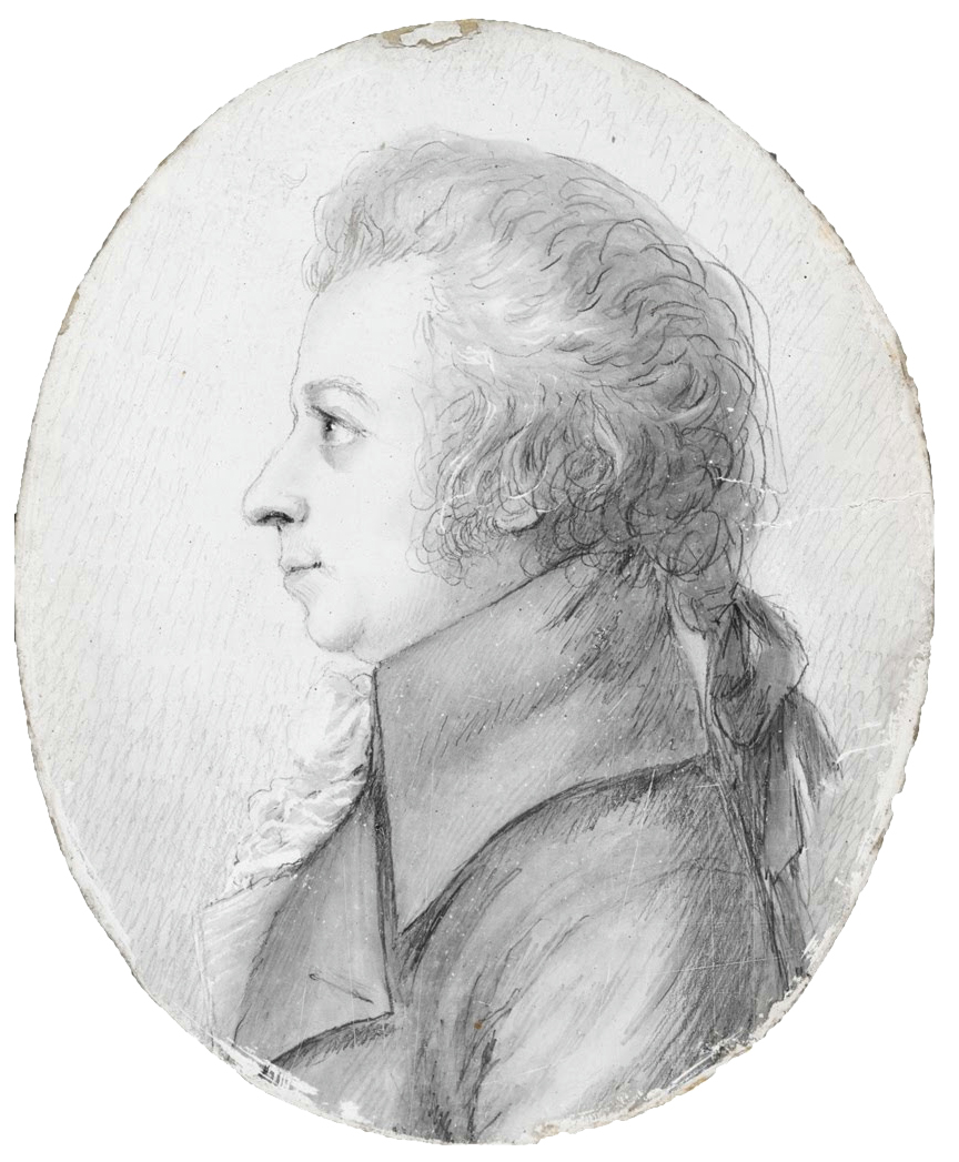 The medium of the drawing is called "silverpoint" (German "Silberstiftzeichnung"), which is described in the English Wikipedia article: Silverpoint. The drawing was made when Mozart visited the city of Dresden in April, 1789.